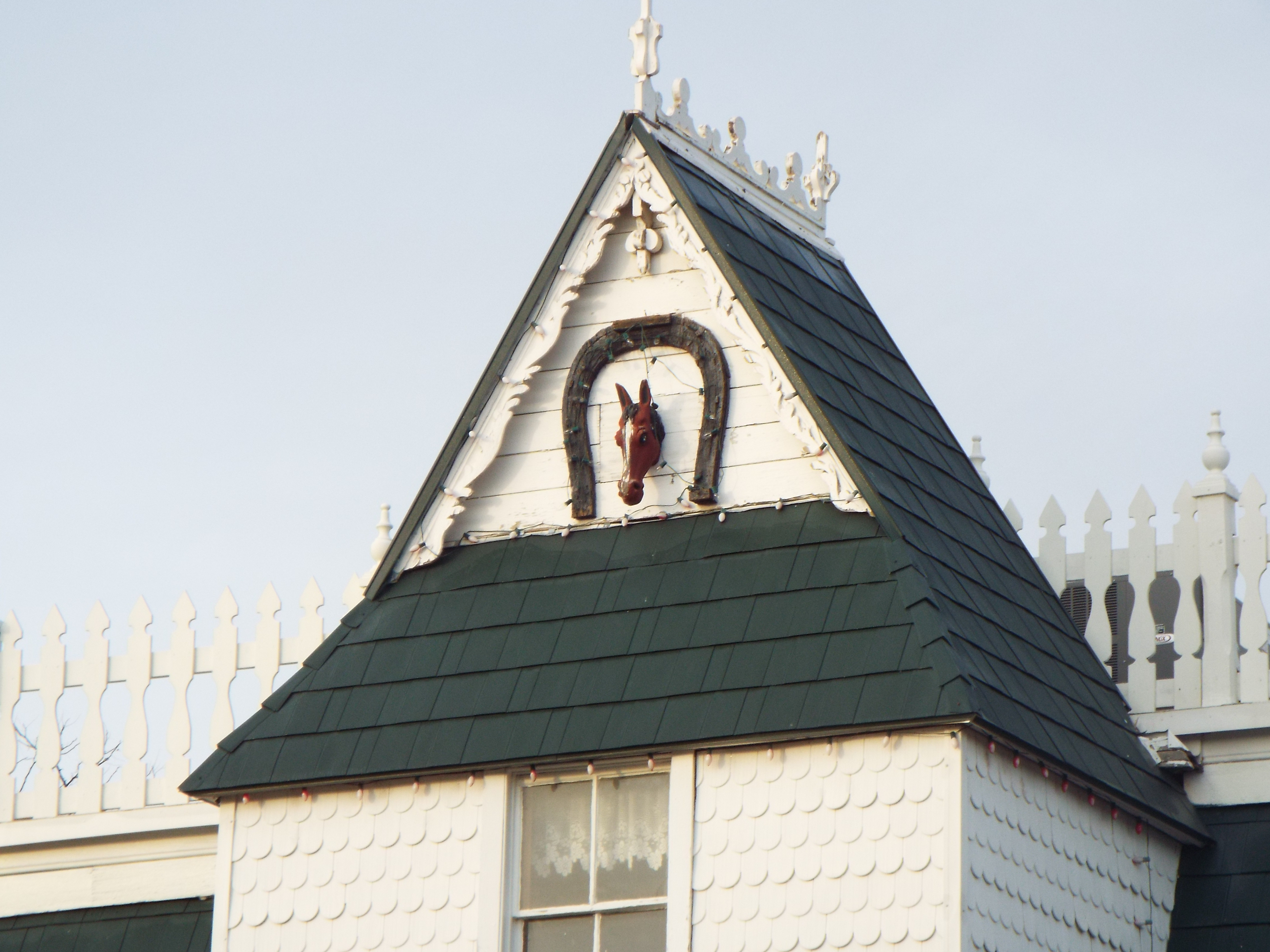 Horse carved within a horse shoe in the NRHP James M. Flake House i Snowflake, Arizona